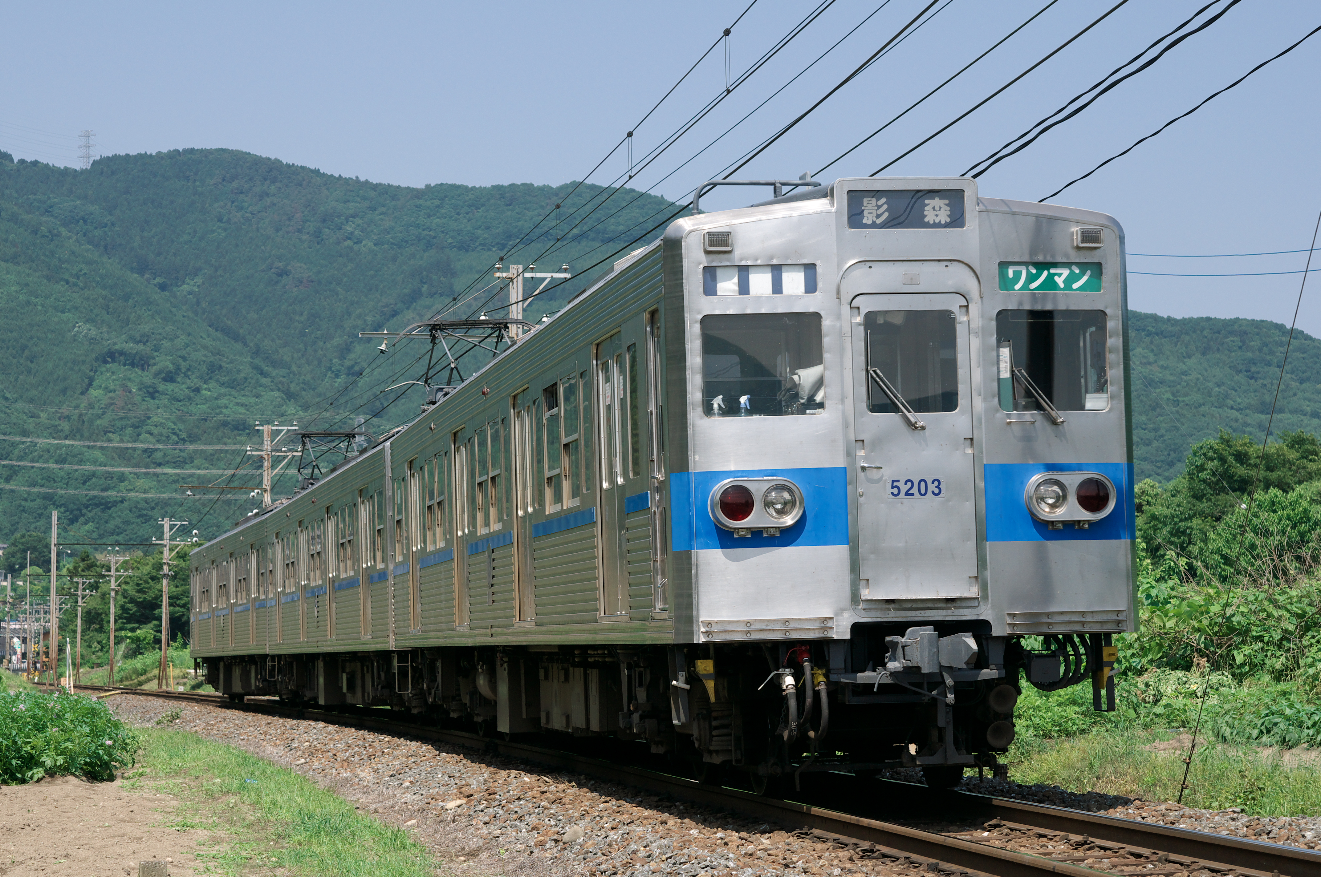 Chichibu Railway 5000 series EMU set 5003 on the Chichibu Main Line between Higuchi and Nogami stations